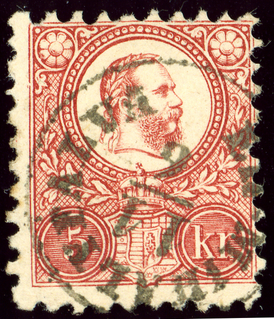 ER-MIHALYFALVA cancellation on Hungarian stamp - engraved 1871-72 issue Catalogue: Sc. 9, Mi. 10